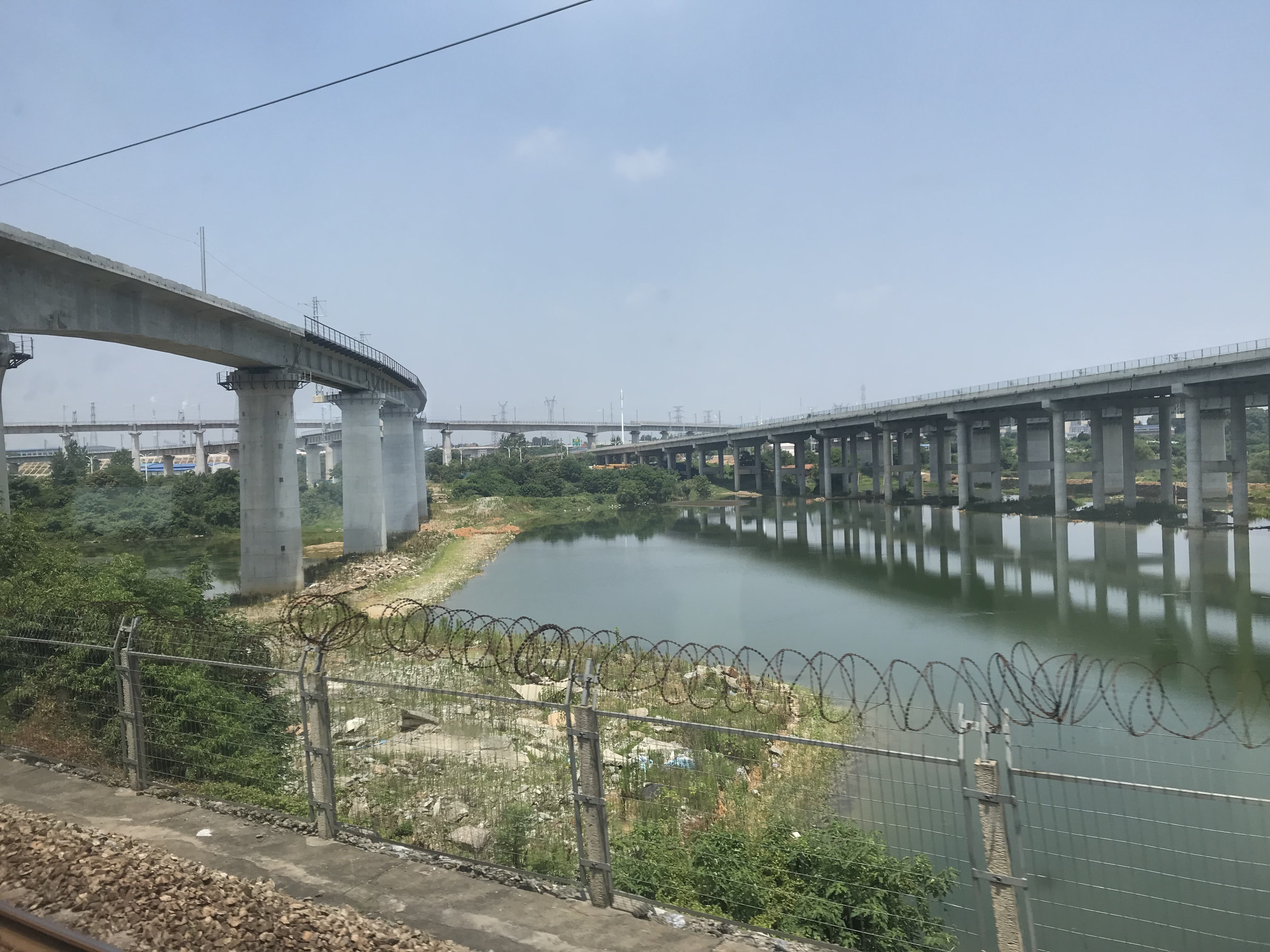 201906 Menghua Railway Construction in Yunxi, Yueyang